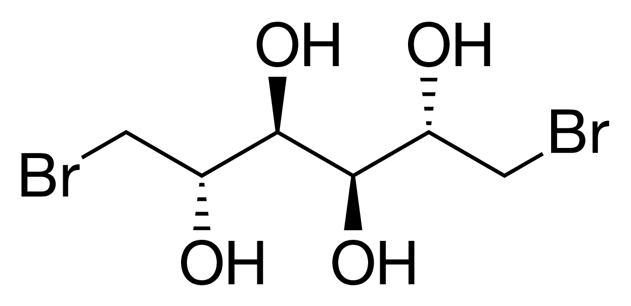 chemical structure of mitobronitol